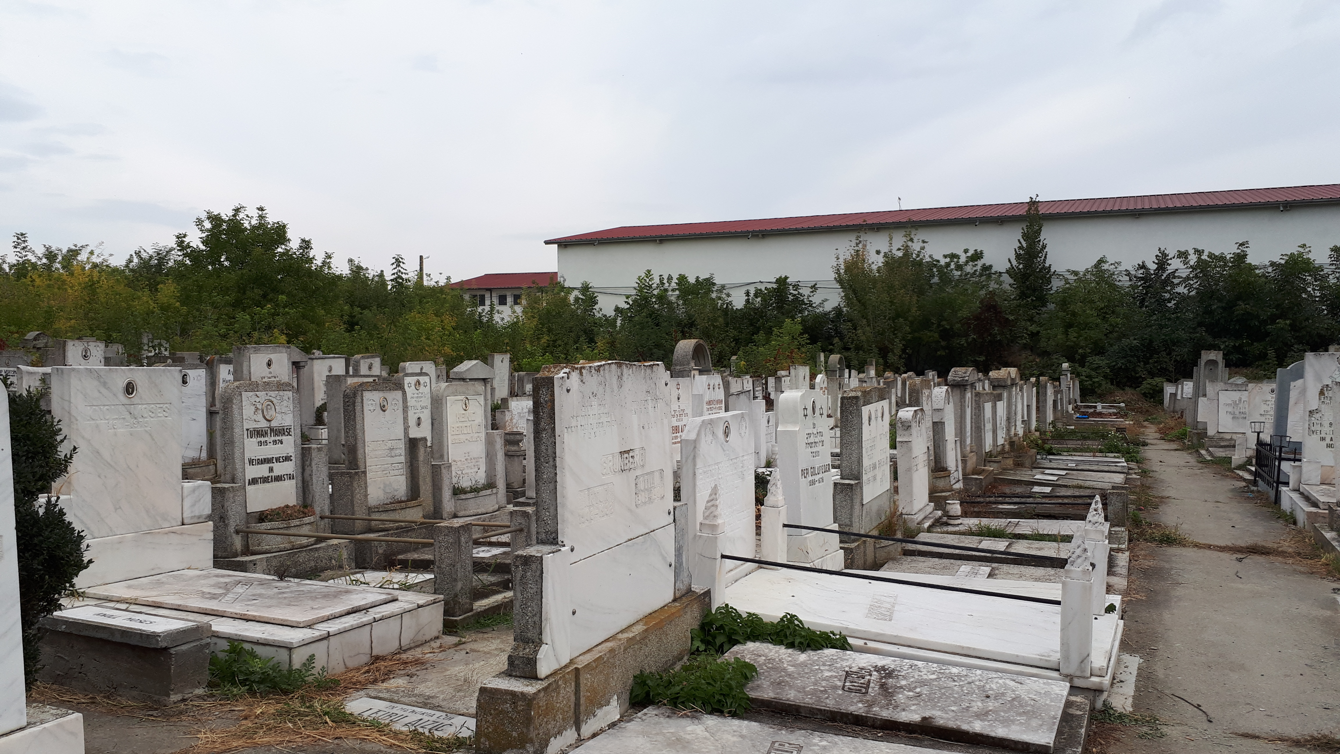 Jewish cemetery in Bacău